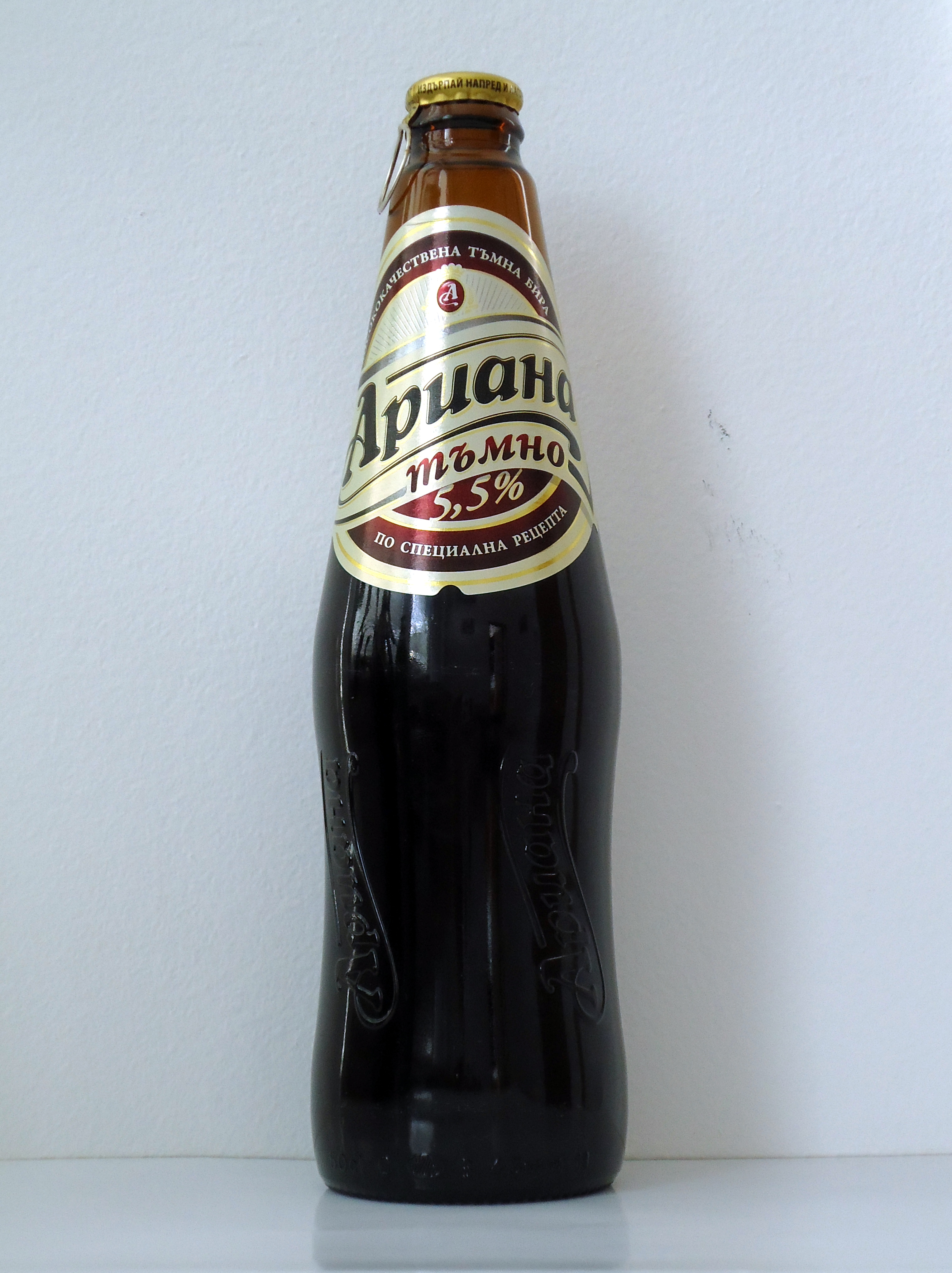 Ariana dark beer (Bulgaria)